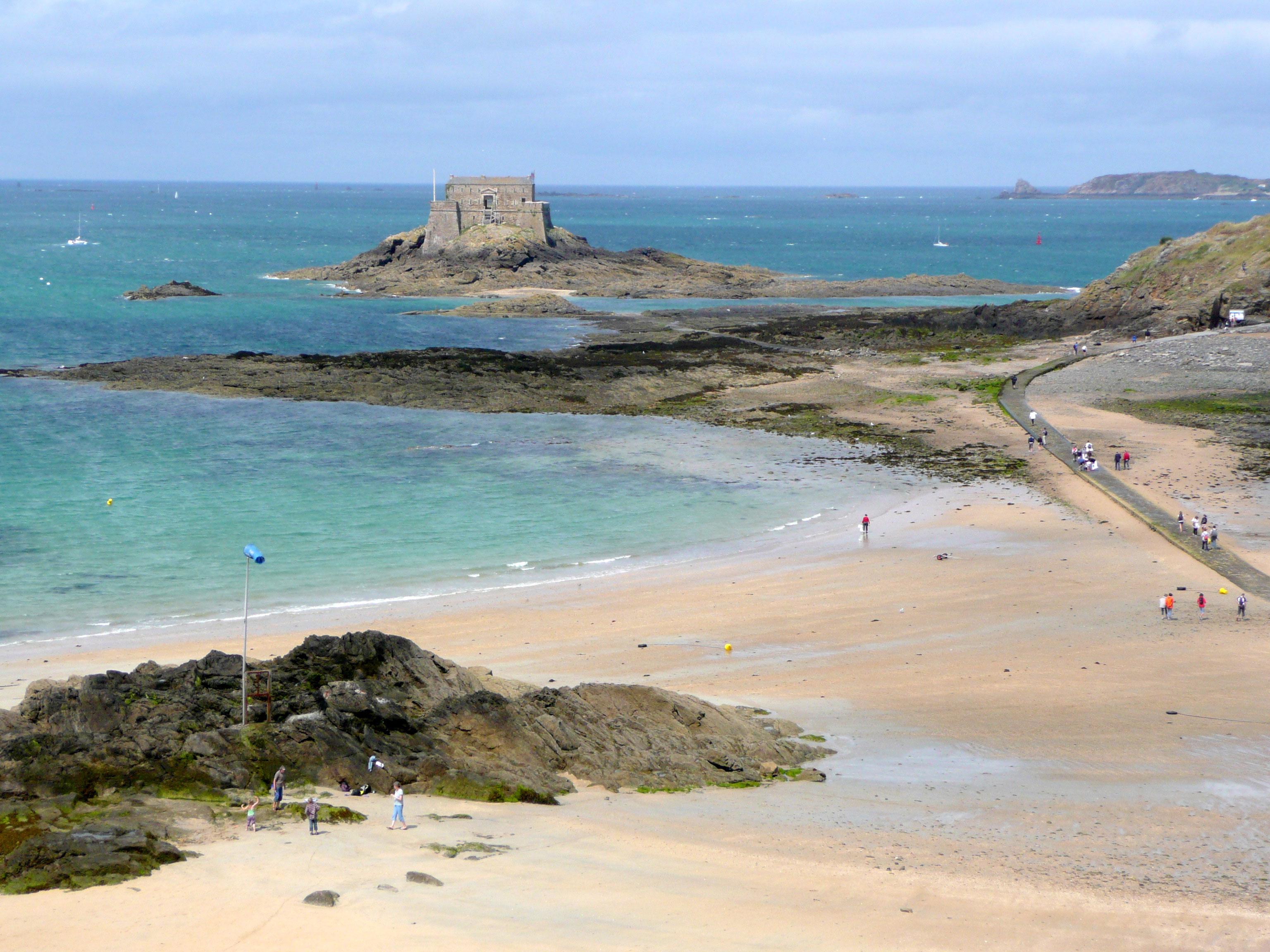 Petit Bé island Saint Malo, Brittany, France